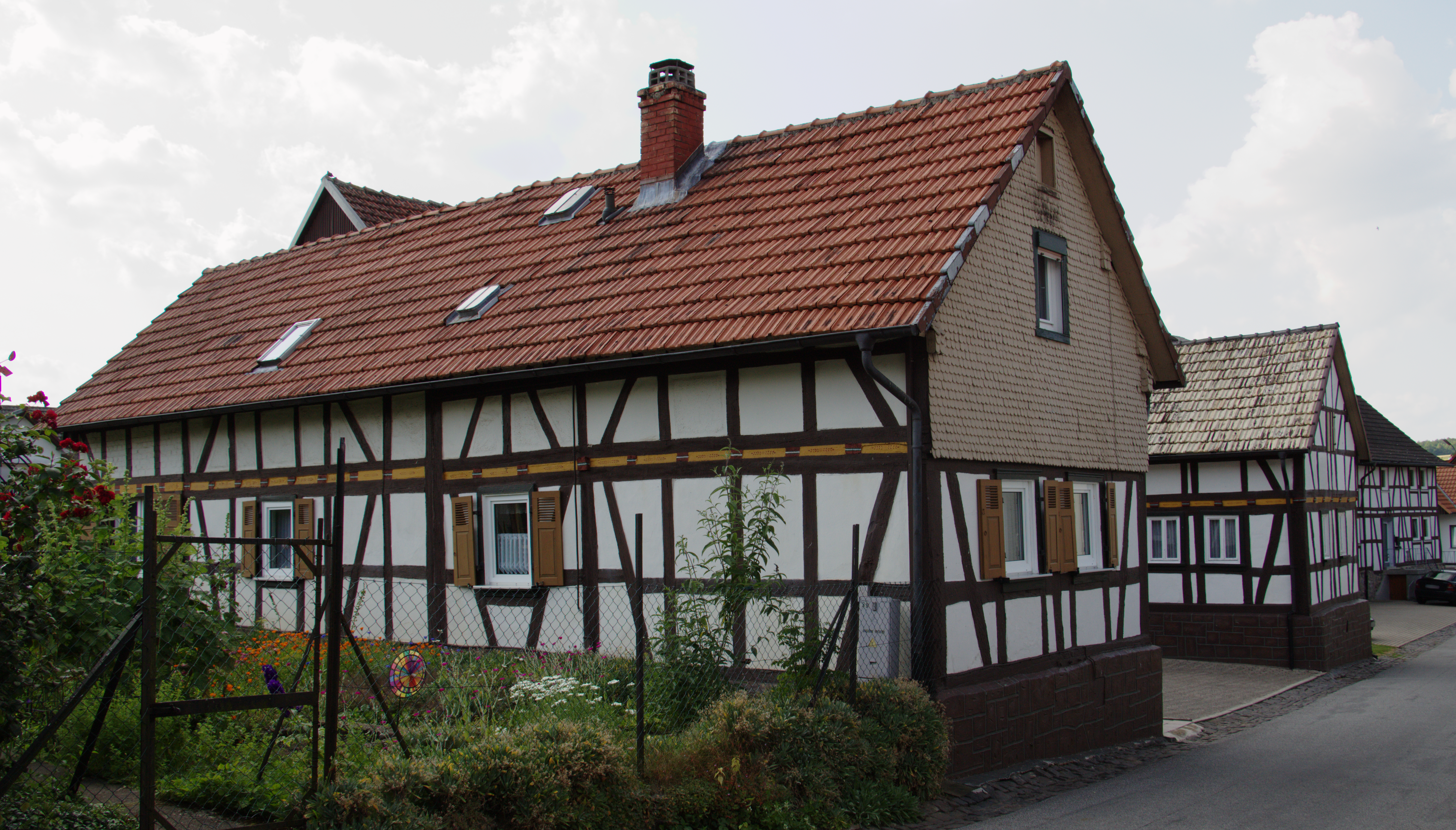 Half-timbered building in Ober-Ohmen Muecke Muehlenstrasse 5 / Hesse / Germany